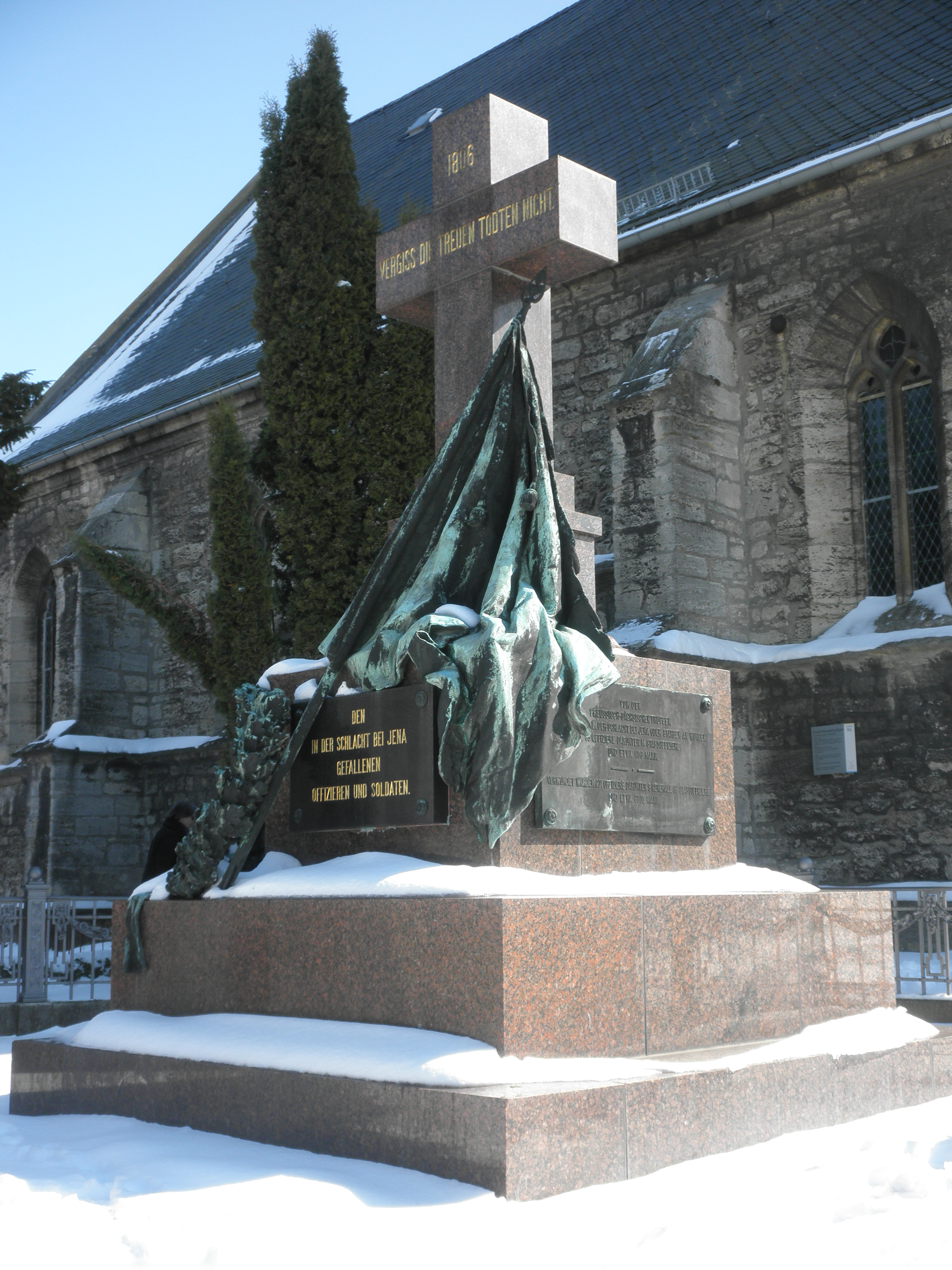 War Memorial in Vierzehnheiligen (Jena) in Thuringia